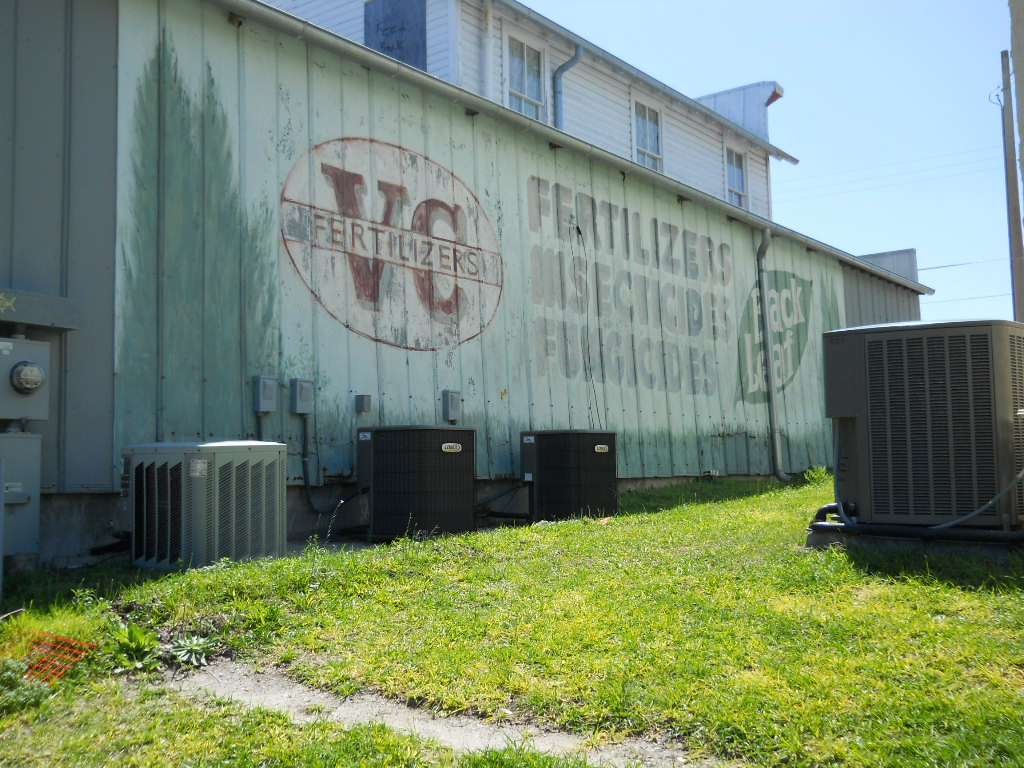 Stuart Feed Store, downtown Stuart, Florida: West facade of building with VC Fertilizers wall advertisement